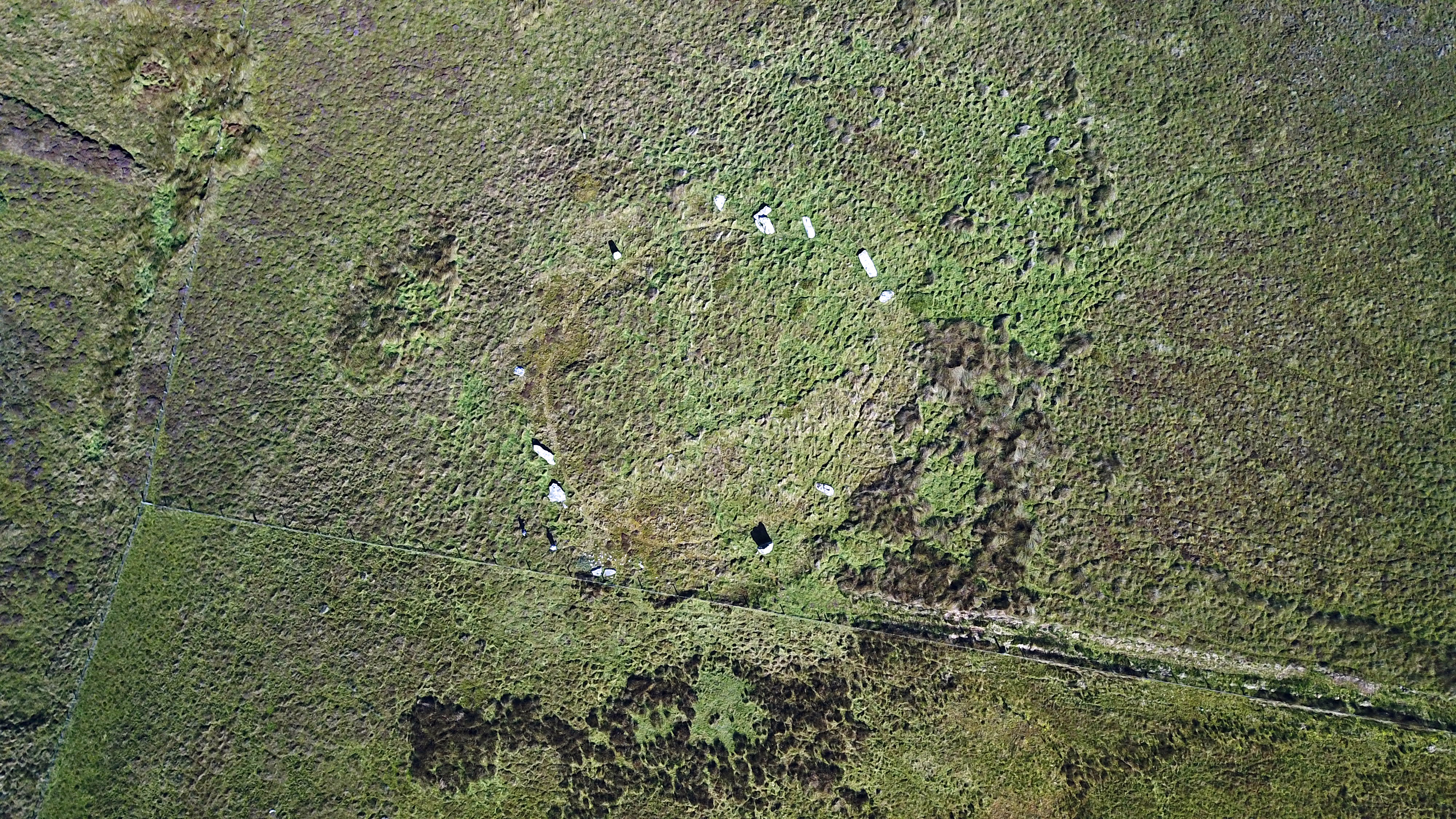 Cultoon Stone Circle